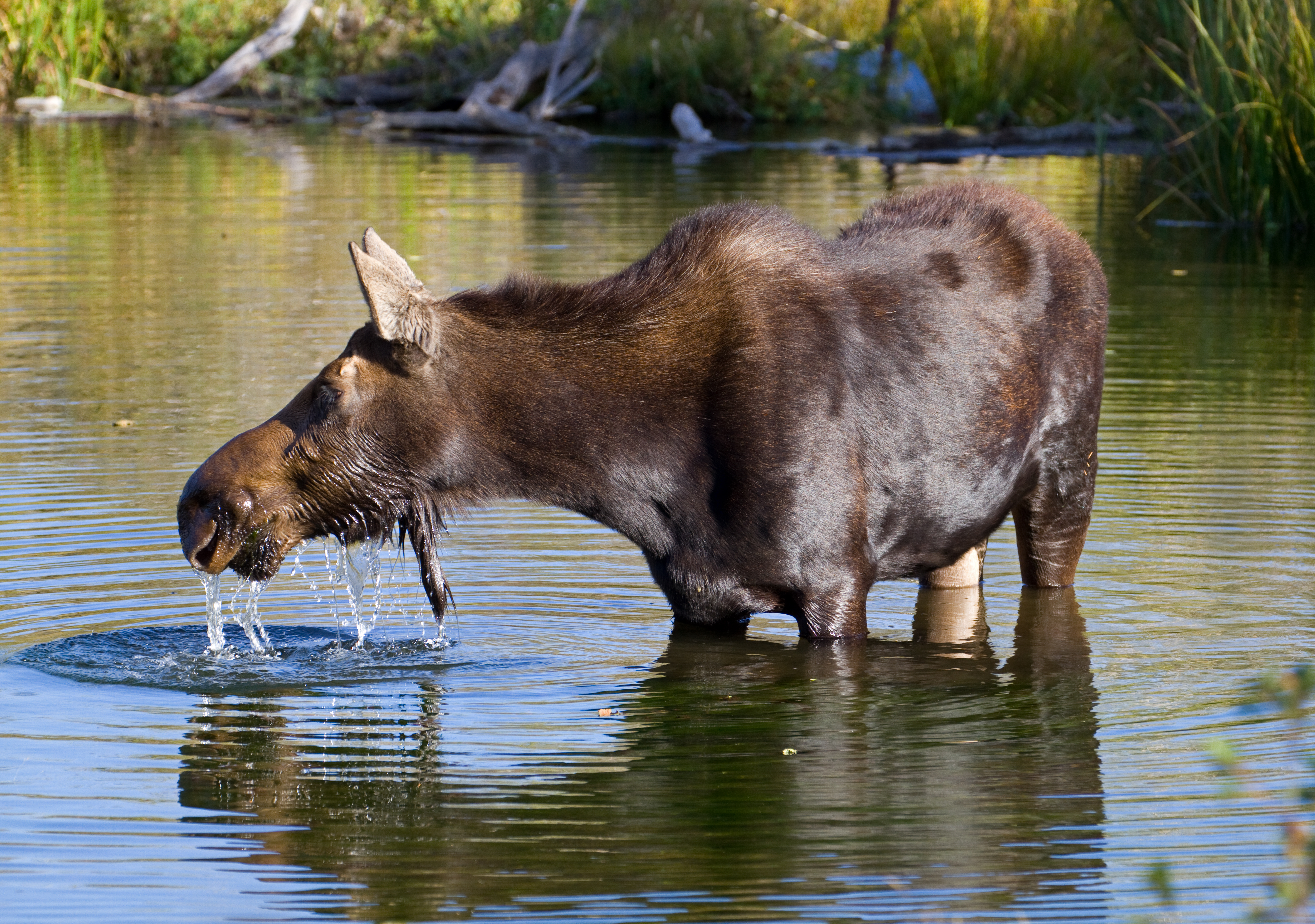 A female moose grazing for water plants in Grand Teton National Park, Wyoming, USA.